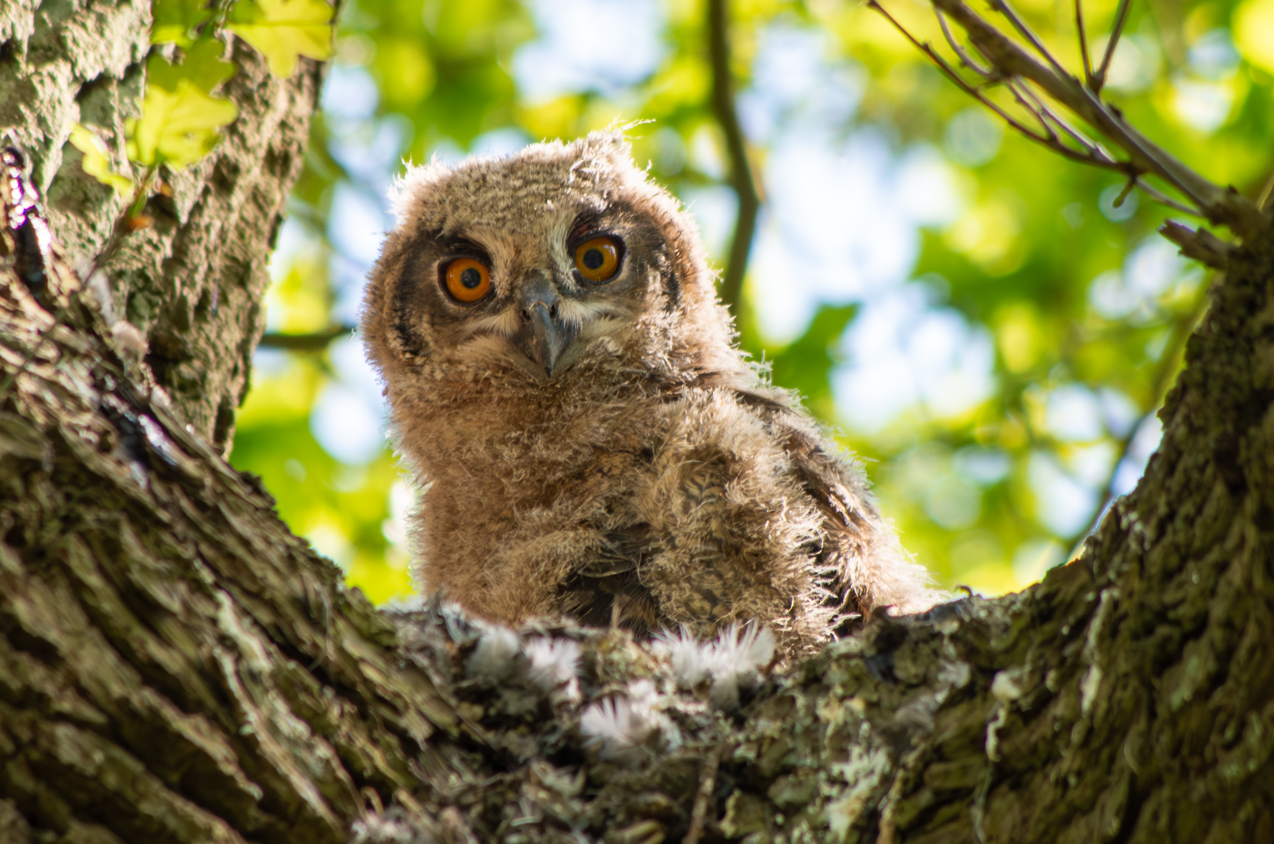 Eurasian eagle-owl (Bubo bubo) chick, Hamburg, Note: Together with two siblings this chick was sitting on a branch next to a forest path.